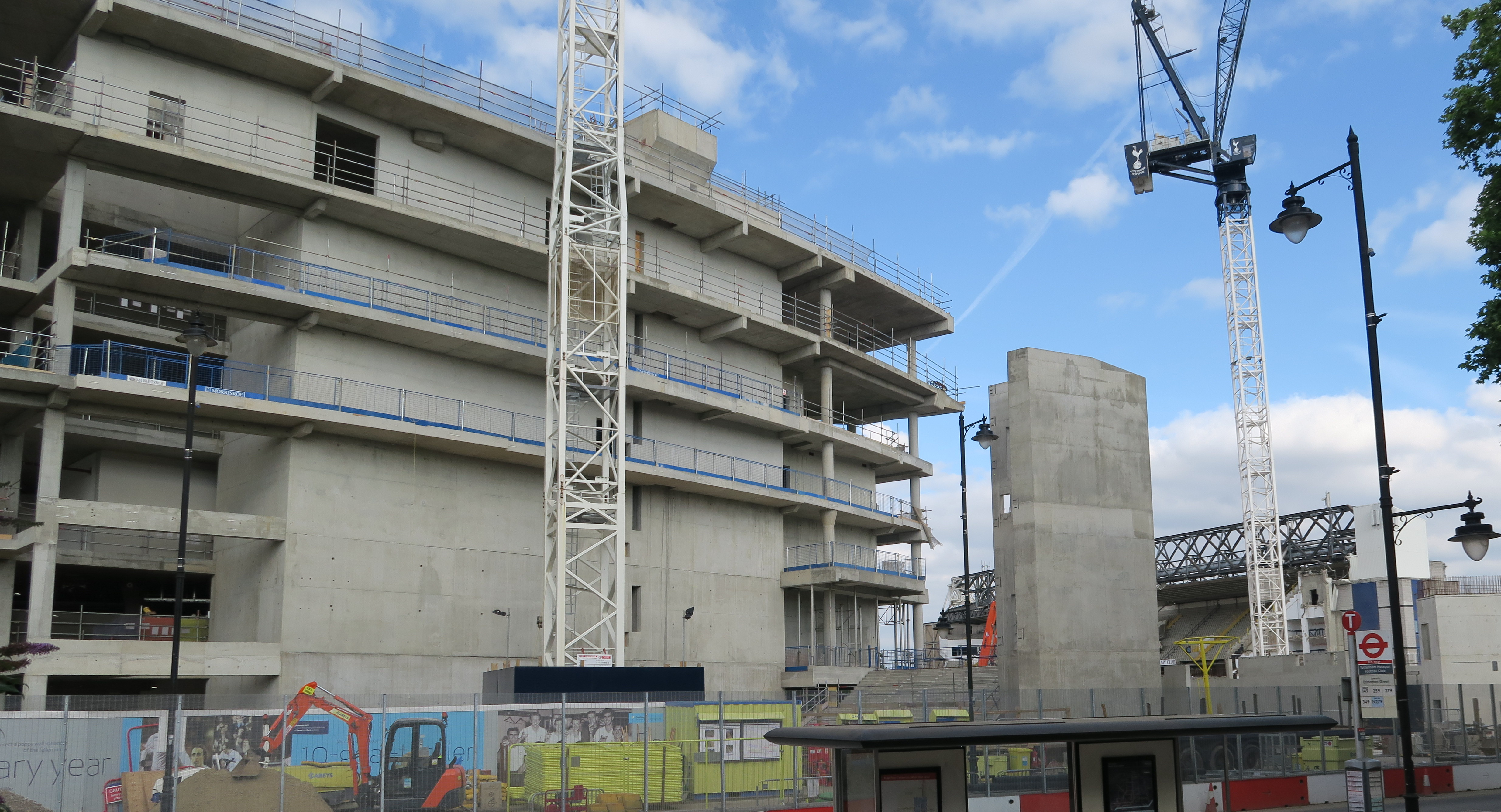 White Hart Lane being demolished, only South Stand still standing (visible at the back) but would be completely removed soon. New Stadium being built in front.